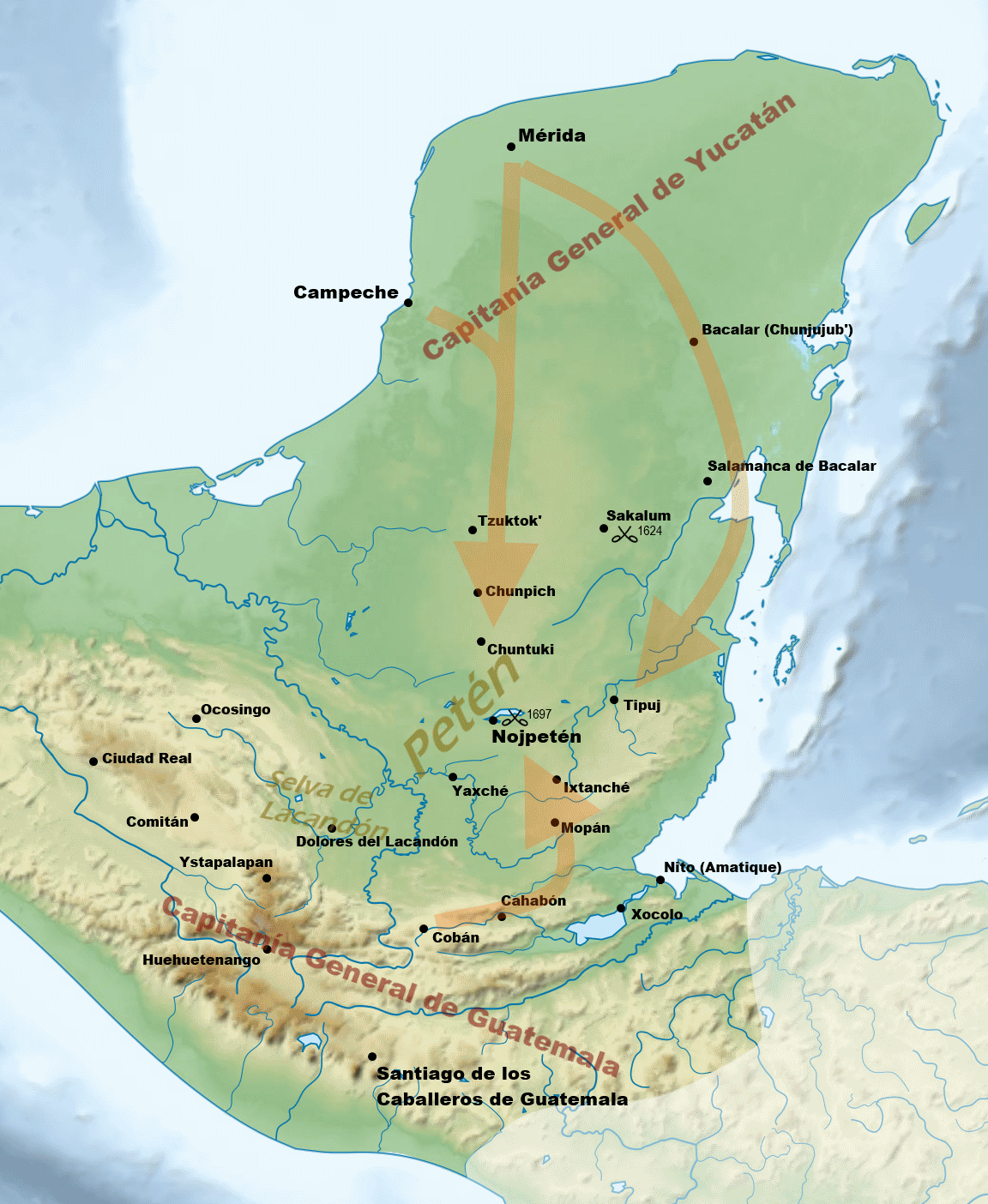 Routes of approach by the Spanish against the fiercely independent Itza and their neighbours during the 17th century. For layer data see File:17th century Spanish routes to Petén.xcf Sources: The Conquest of the Last Maya Kingdom by Grant D. Jones 1998. ISBN 0-8047-3522-0. La Conquista del Lacandón by Nuria Pons Sáez 1997. ISBN 968-36-6150-5. ITMB Publishing Ltd. (1998). Guatemala (Map). 1:500000. International Travel Maps (3rd ed.) ISBN 0-921463-64-2. ITMB Publishing Ltd. (2000). México South East (Map). 1:1000000. International Travel Maps (2nd ed.) ISBN 0921463227.